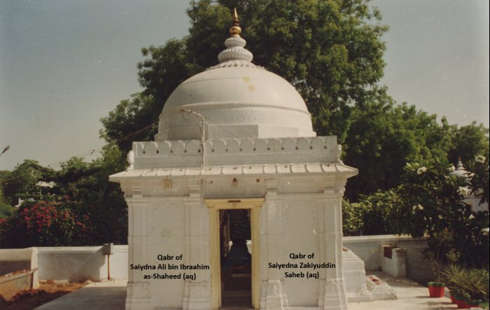 This is the old mausoleum and in its place stands new one in which three Alavi Du'aat are buried